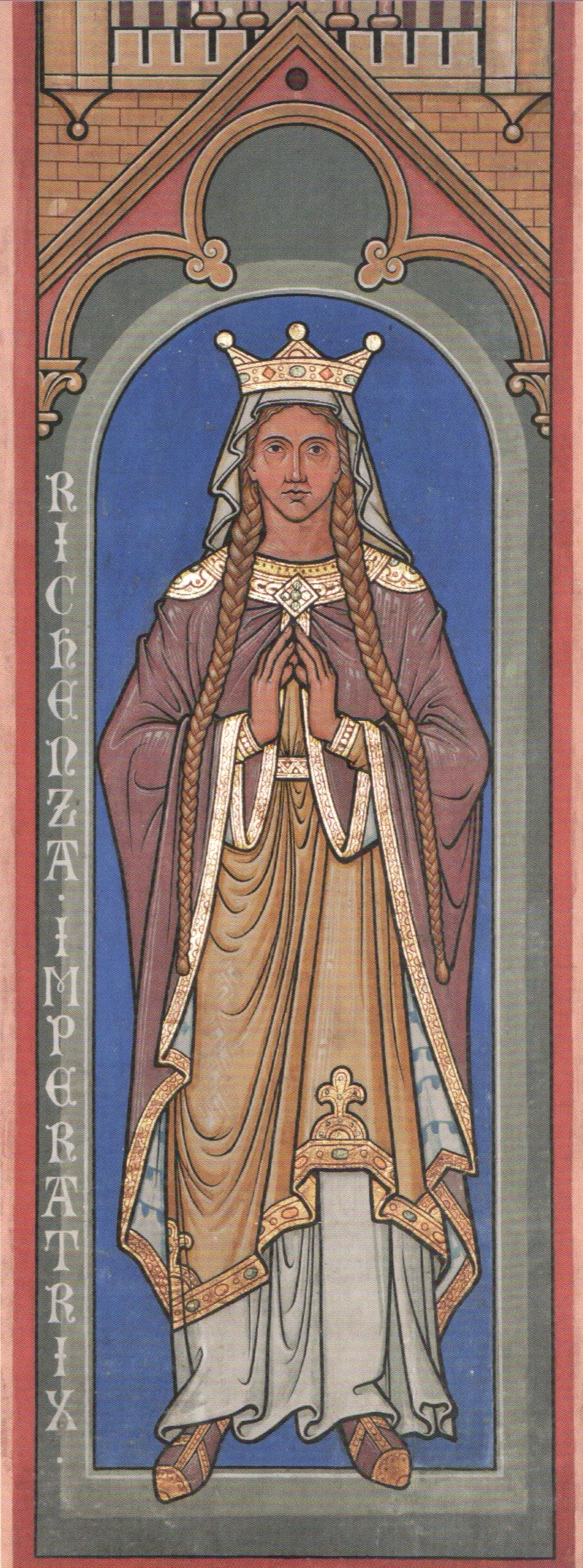 Richenza of Northeim, part of the Romanesque Revival frescoes in Kaiserdom Königslutter, where she is buried